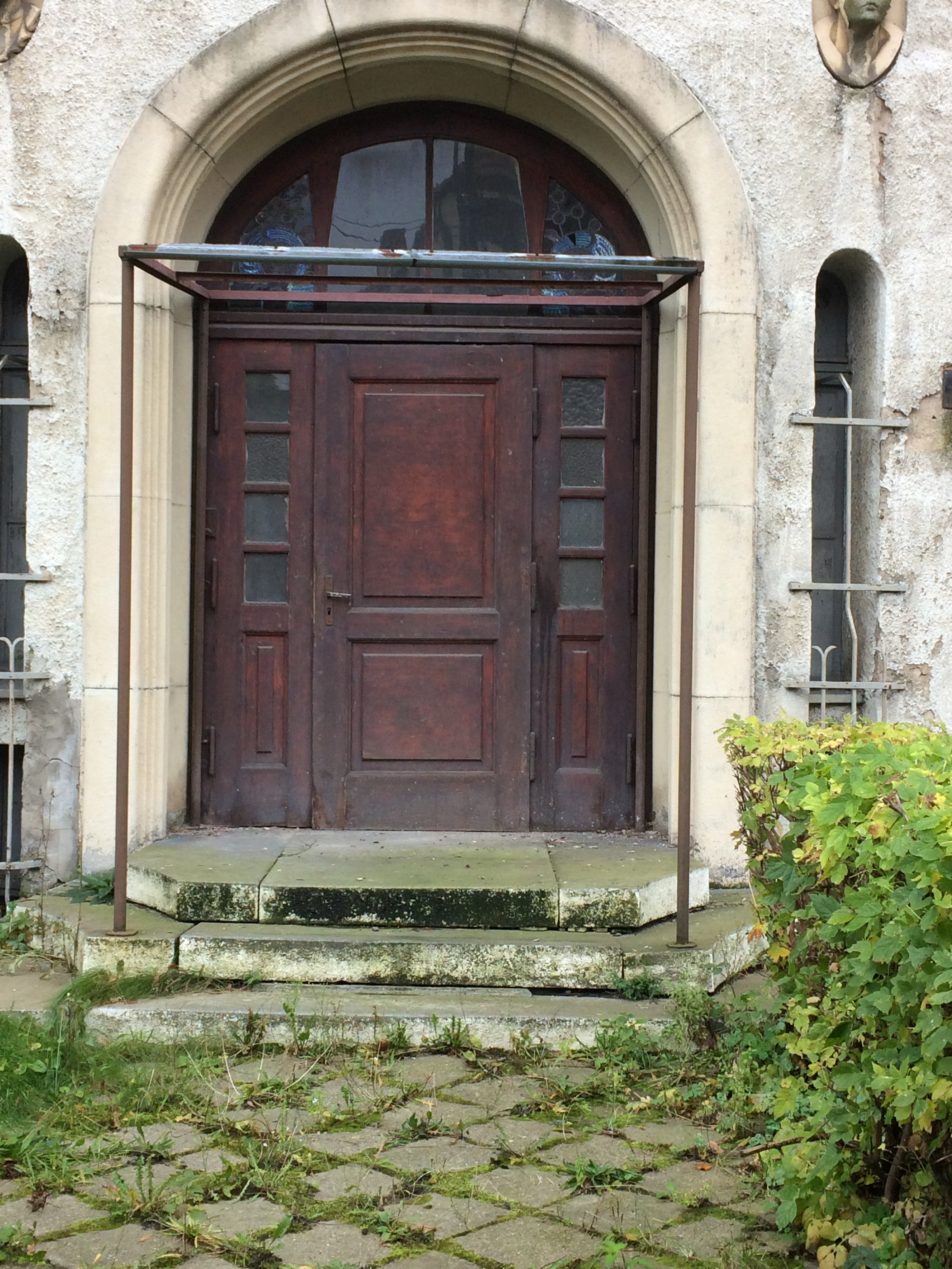 Main door 2016